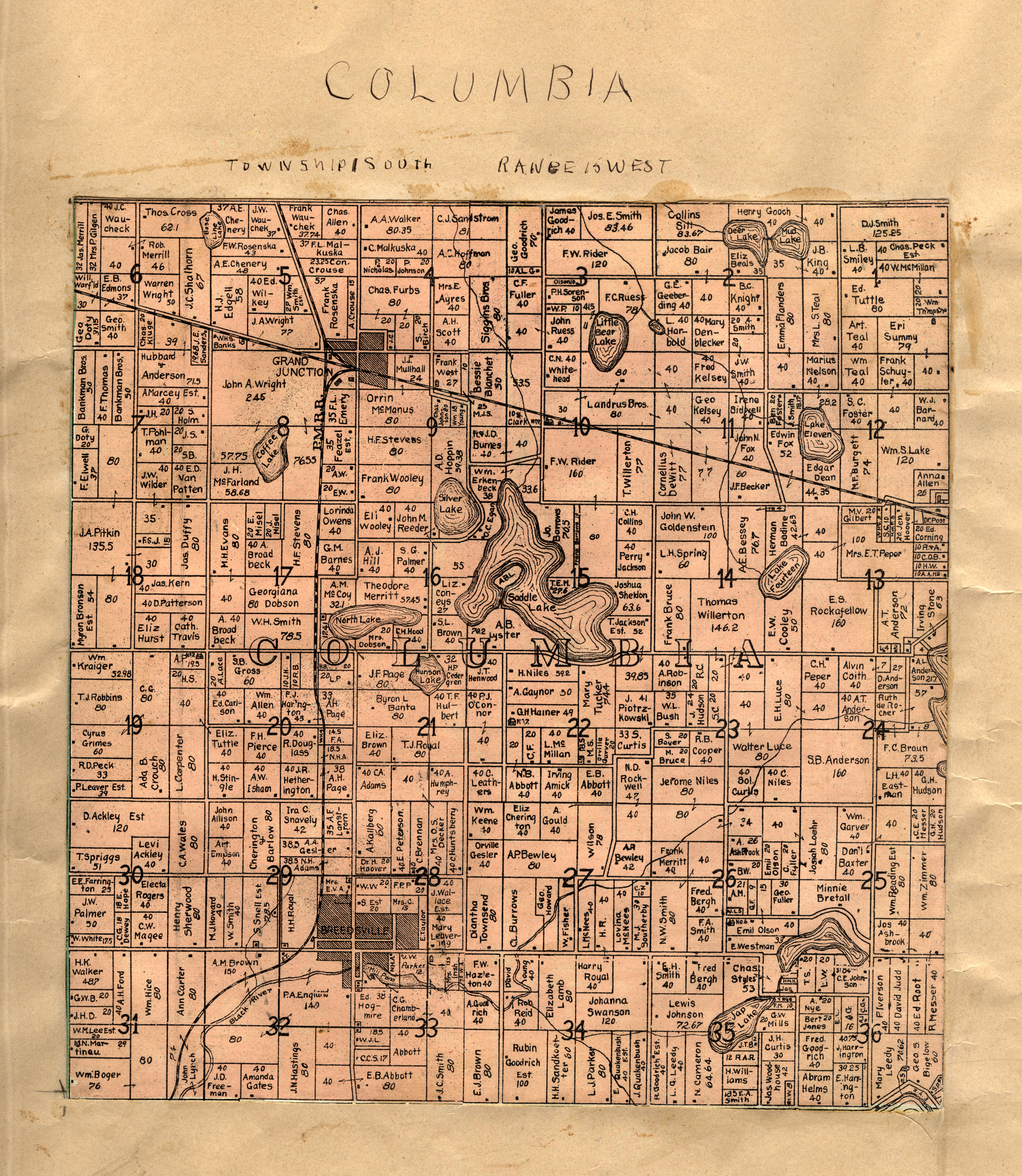 Digital scan of the Columbia Township portion of a larger 1906 map of Van Buren County, Michigan. The county map was cut into township-sized pieces, and the pieces were later found pasted into an 1895 atlas of Van Buren County, now in the collection of the Michigan State University Map Library. Each township map cut from the 1906 county map was pasted onto a blank page opposite the map of the corresponding township in the 1895 county atlas. Shows parcel boundaries and names of property owners, Public Land Survey System township and section numbering, roads, railroads, residences, schools, churches, municipalities, and water features. Print version was cut from map: Orton, M. K. A farm map of Vanburen County, Michigan / compiled from official records and local inspection by W.H. Goss, County Surveyor ; drawn by M.K. Orton. Rockford, Ill. : W.W. Hixson, [1906]. MSU Libraries catalog record